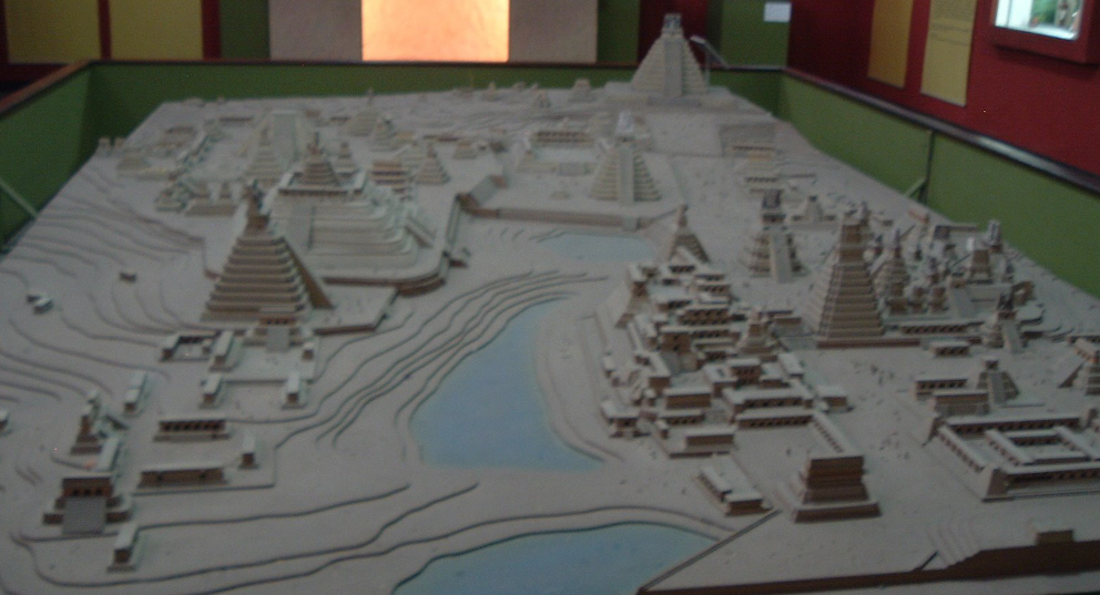 Reconstruction of Tikal, 8th century